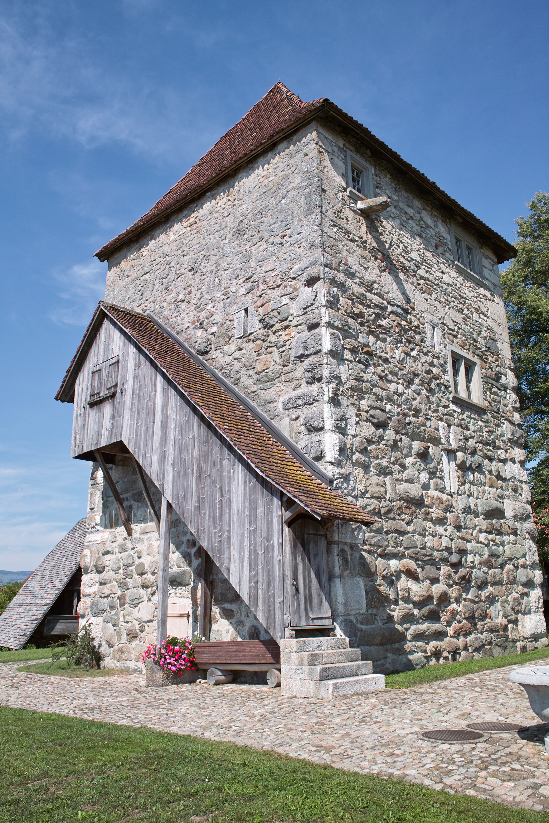 Municipality of Halten, canton of Solothurn, Switzerland: "Tower of Halten", the remaining part of the former castle of Halten. Now part of the regional history museum of the Wasseramt district.